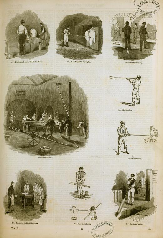 From Charles Knight's Pictorial Gallery of Arts, England, 1858. Glassworking and glassblowing in England in 1858.